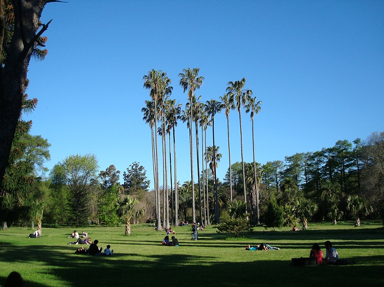 The Botanic Garden in Prado Park, Montevideo, Uruguay.